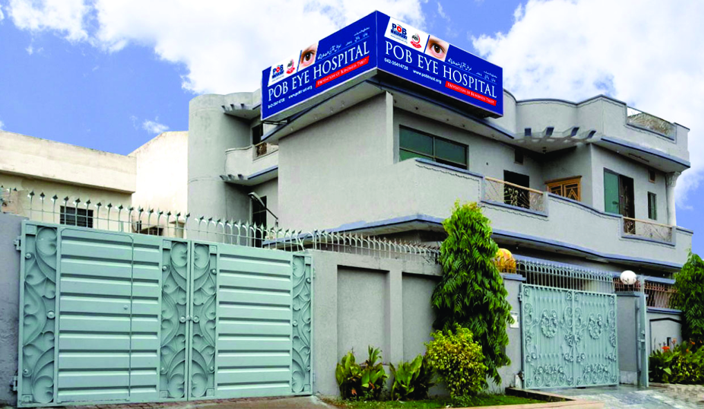 Best facility in Lahore, Eye Care services, refraction, surgery with Lens implantation.